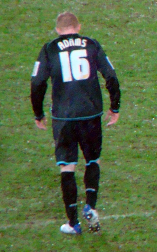 30/03/10 Cardiff V Leicester, Championship, Cardiff City Stadium, Cardiff, Wales